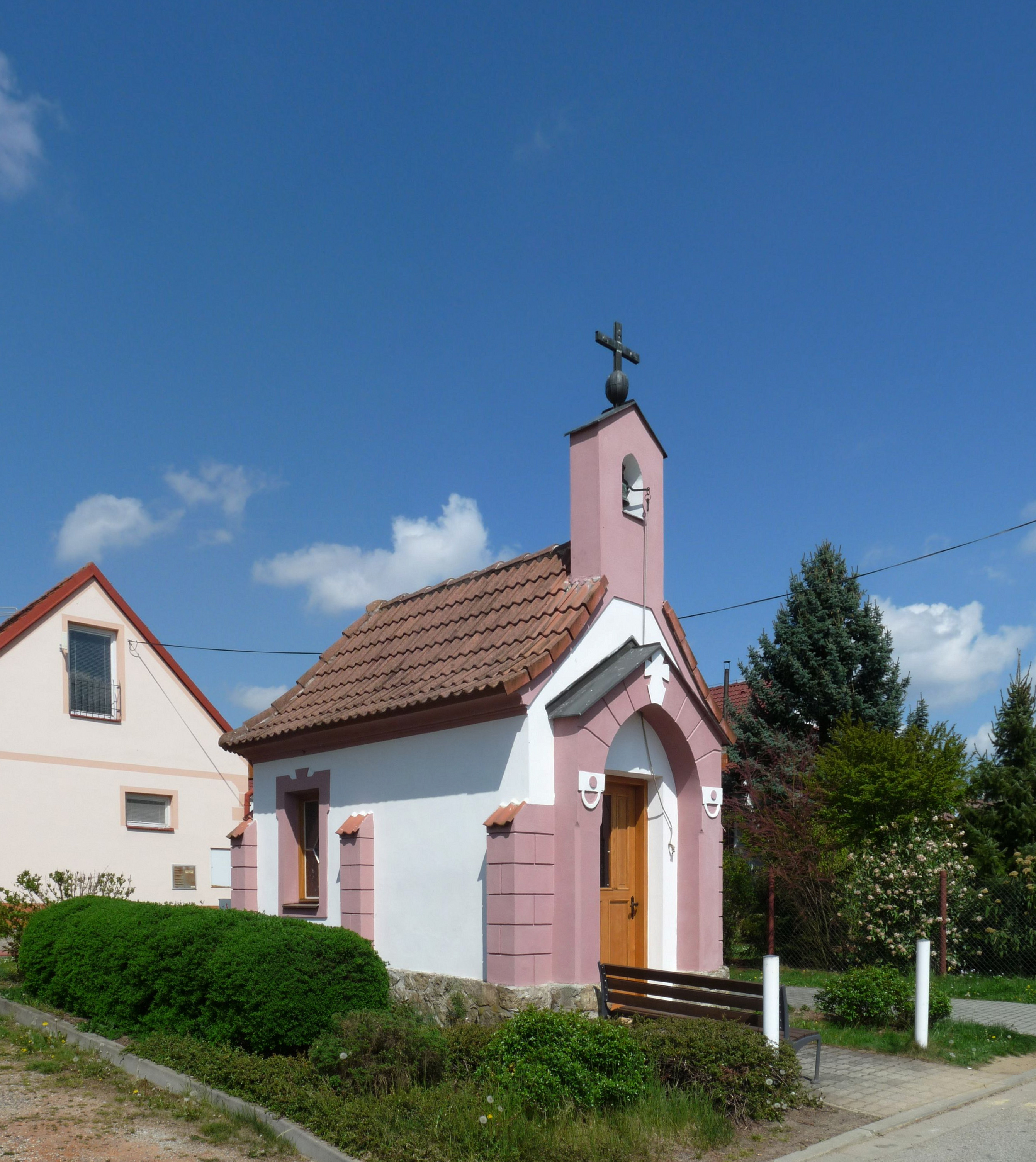 Chapel in the village of Nové Homole, part of the municipality of Homole, České Budějovice, South Bohemian Region, Czech Republic.